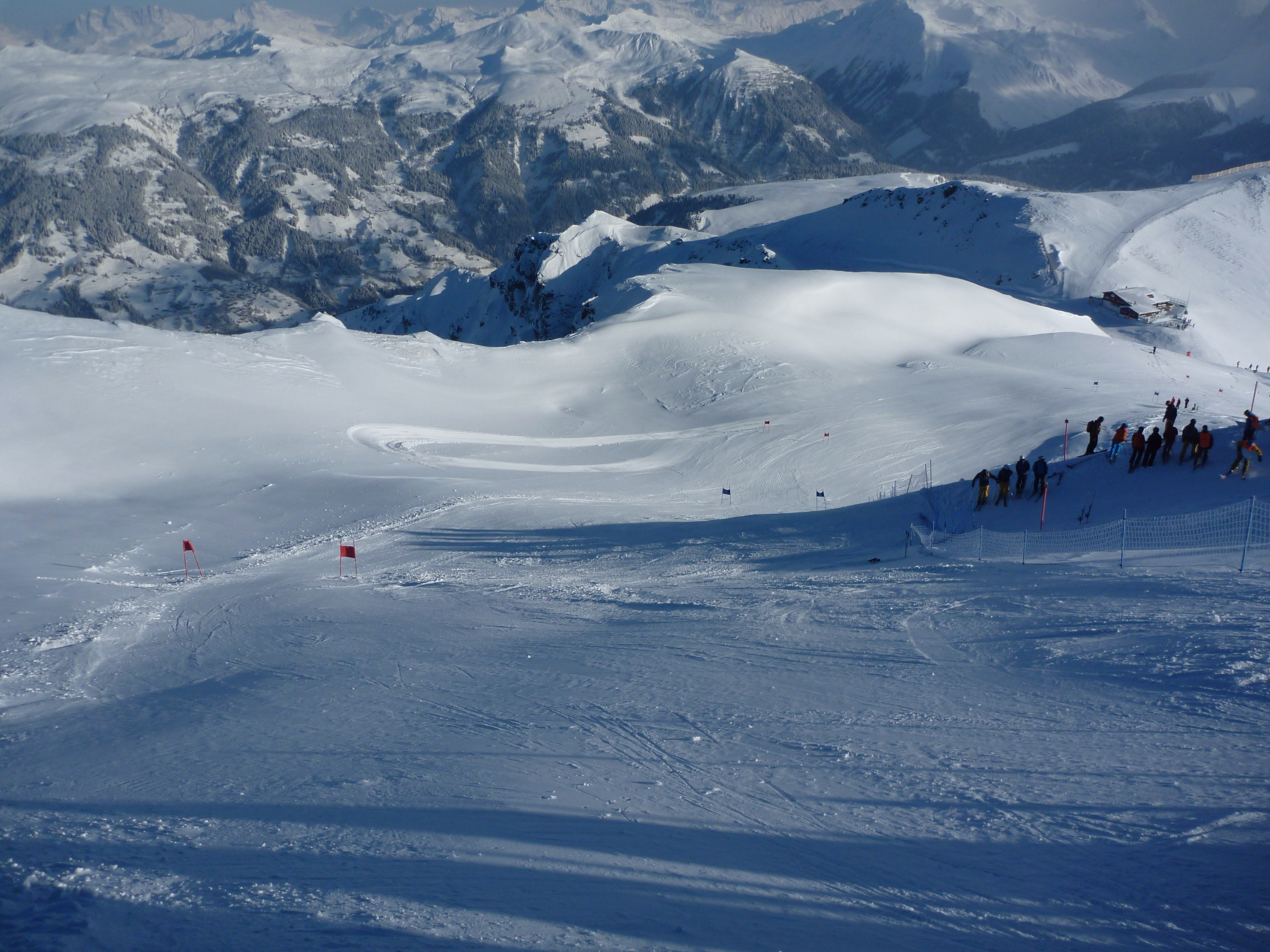 International Super-G ski-race at Weisshorn, Arosa/Switzerland